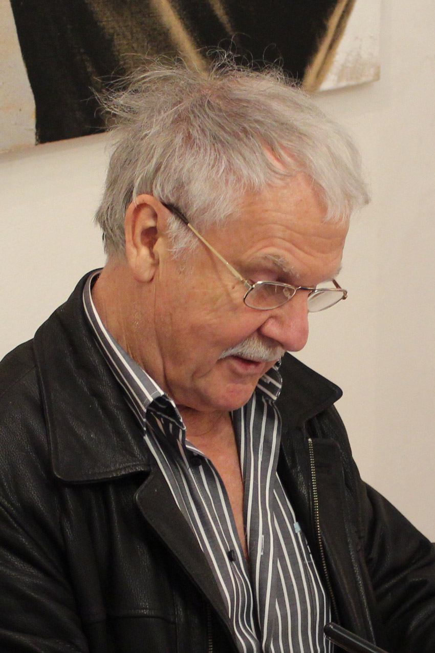 Albissola Comics 2013, May 4th-5th 2013, Albissola Marina, Savona, Italy